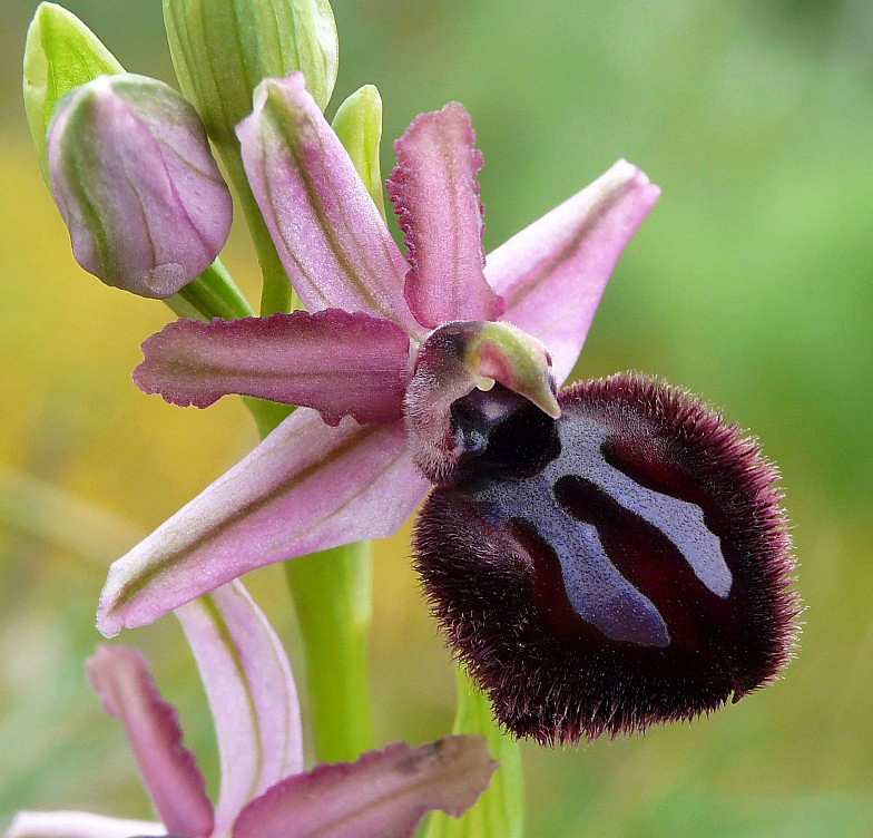 Ophrys sipontensis